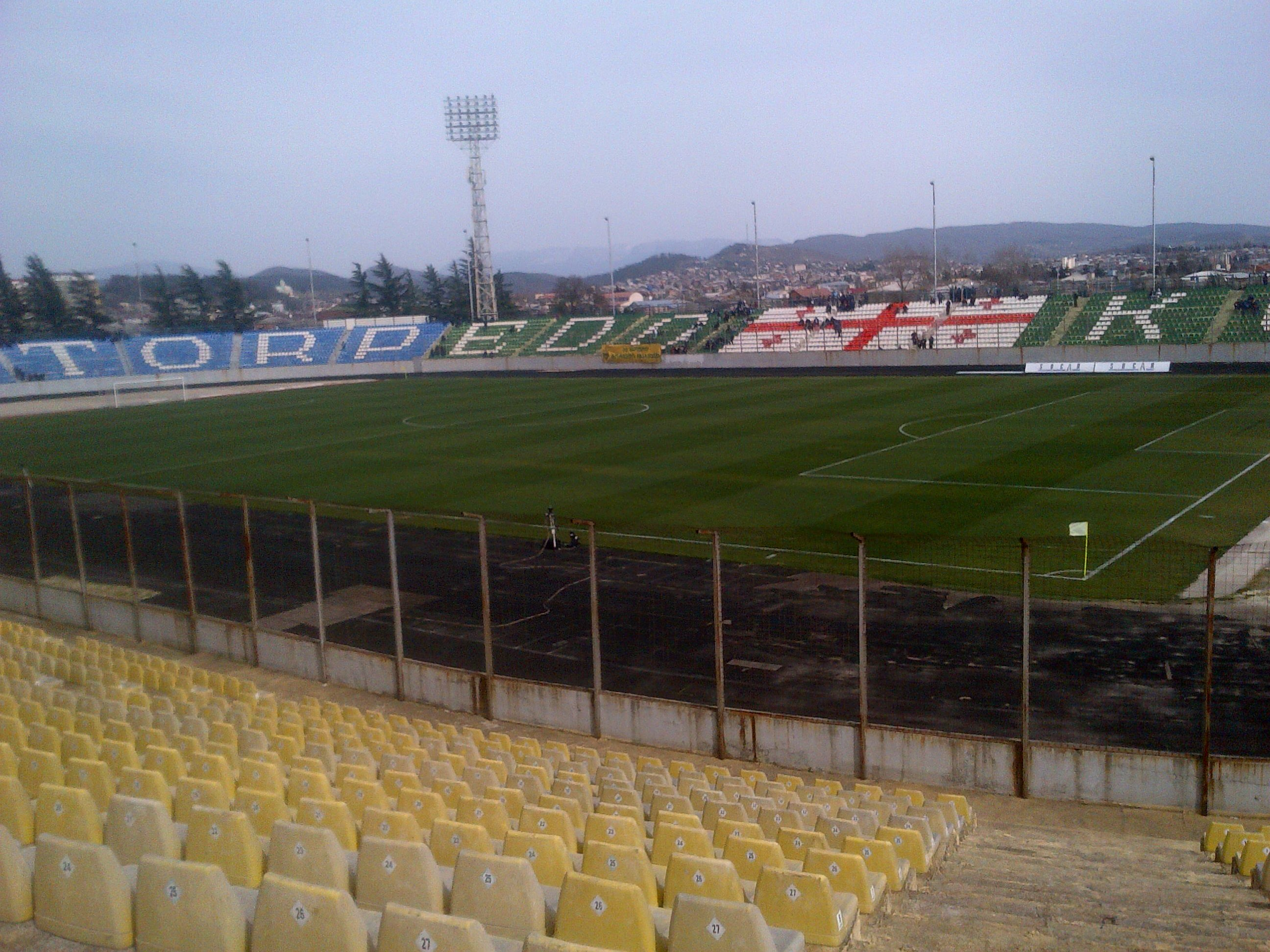 Ramaz Shengelia Stadium in 2014